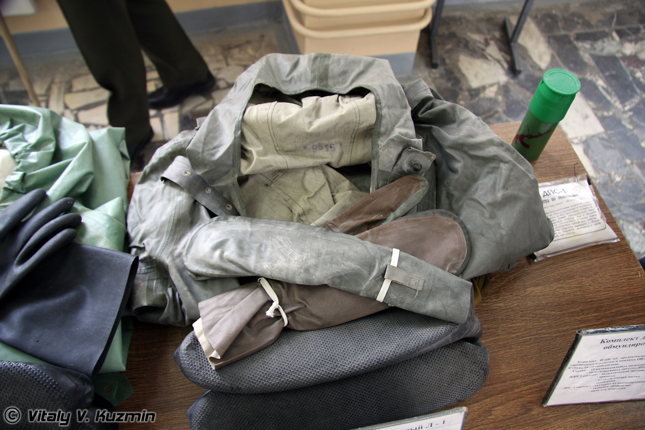 Light chemical protective suit L-1